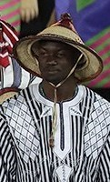 Delegation of Burkina Faso at the 2016 Summer Olympics opening ceremony.